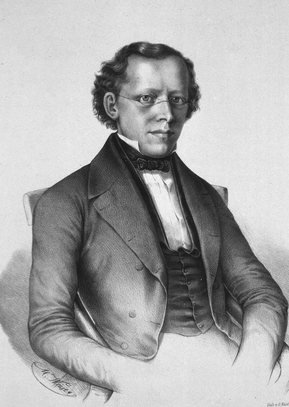 Friedrich Arnold (8 January 1803 – 5 July 1890)